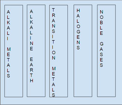 These are the 5 Element Families in the Periodic Table